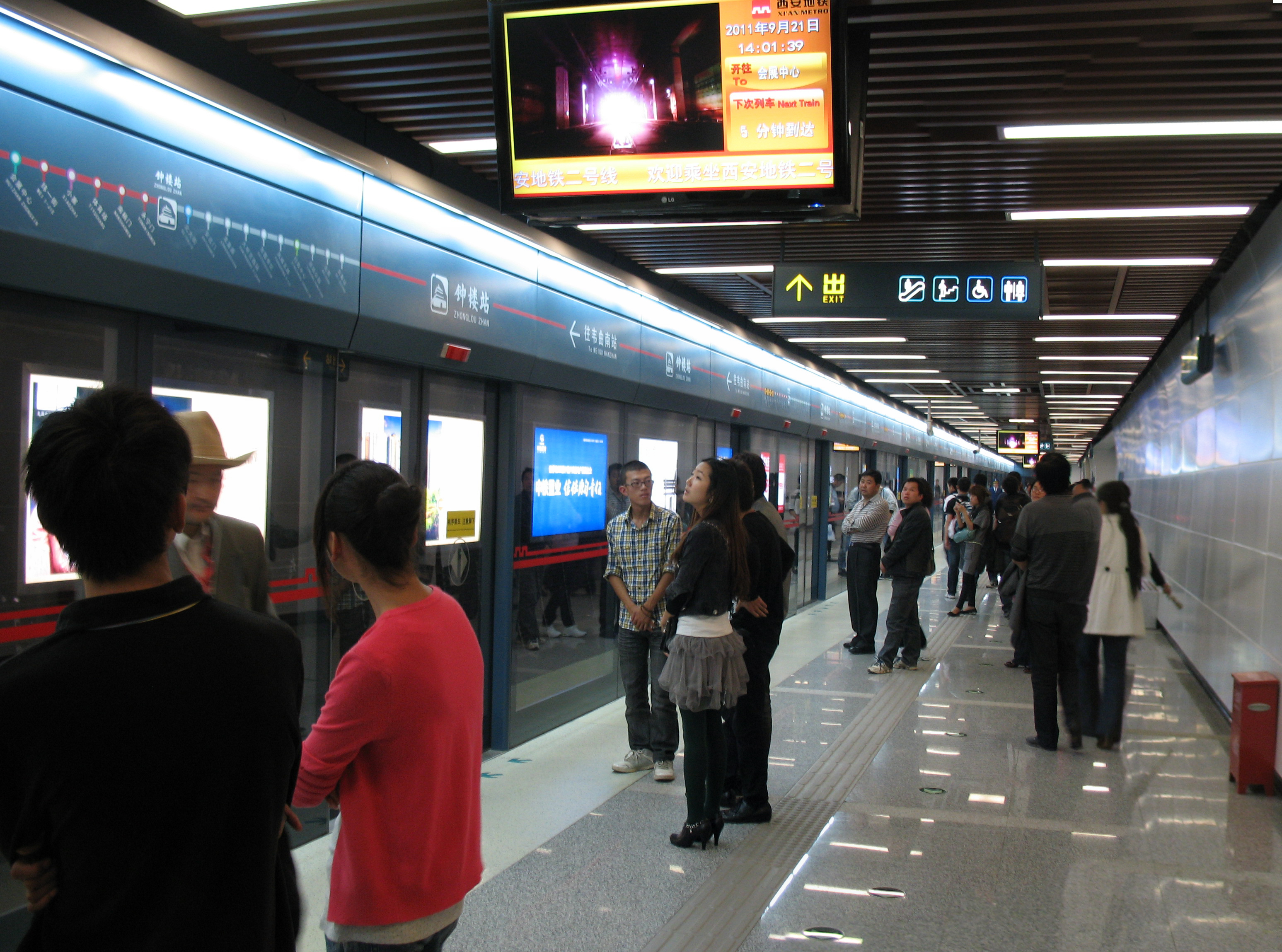 bell tower station of Xi'an Metro